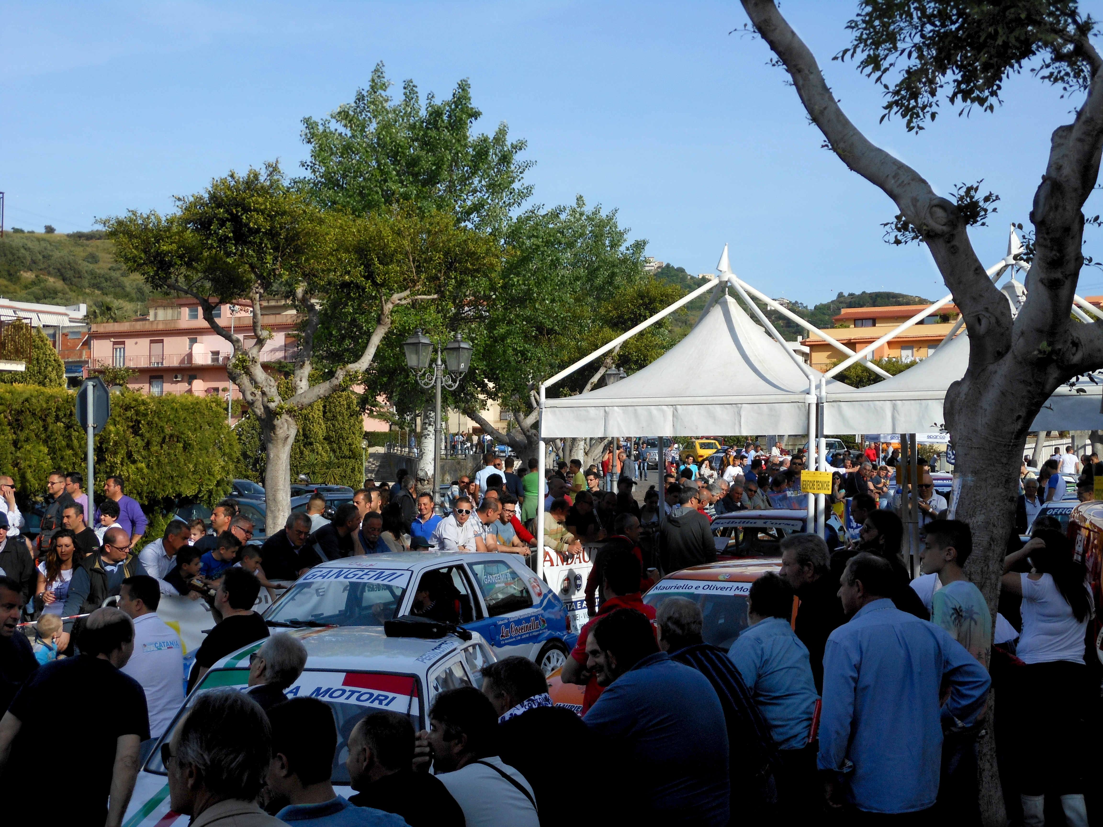 Administrative checks on the cars before the Torregrotta-Roccavaldina race in Torregrotta, Sicily, Italy.